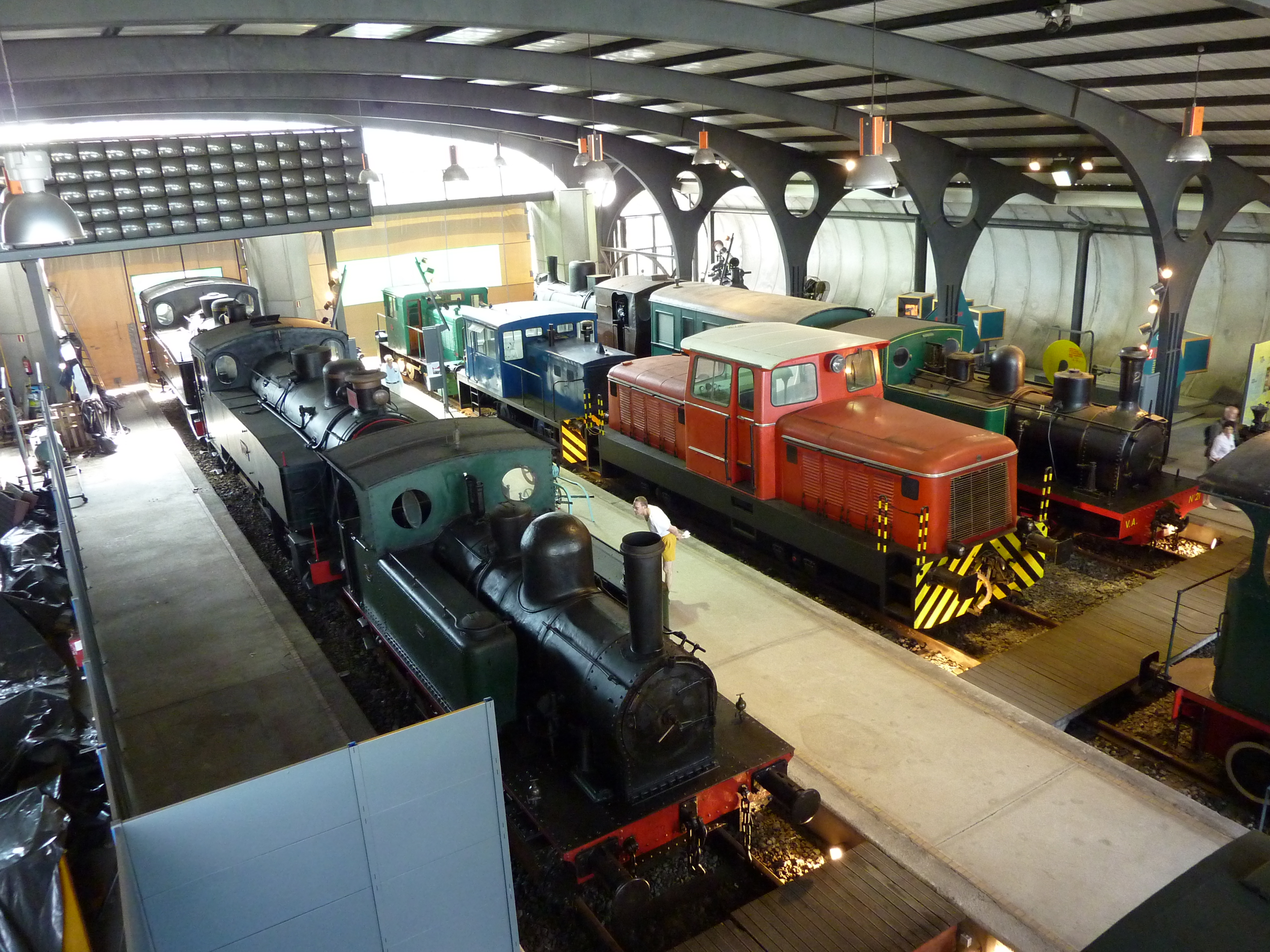 Exhibition hall with locomotives, in Asturian Railway Museum, Gijón, Asturias, Spain